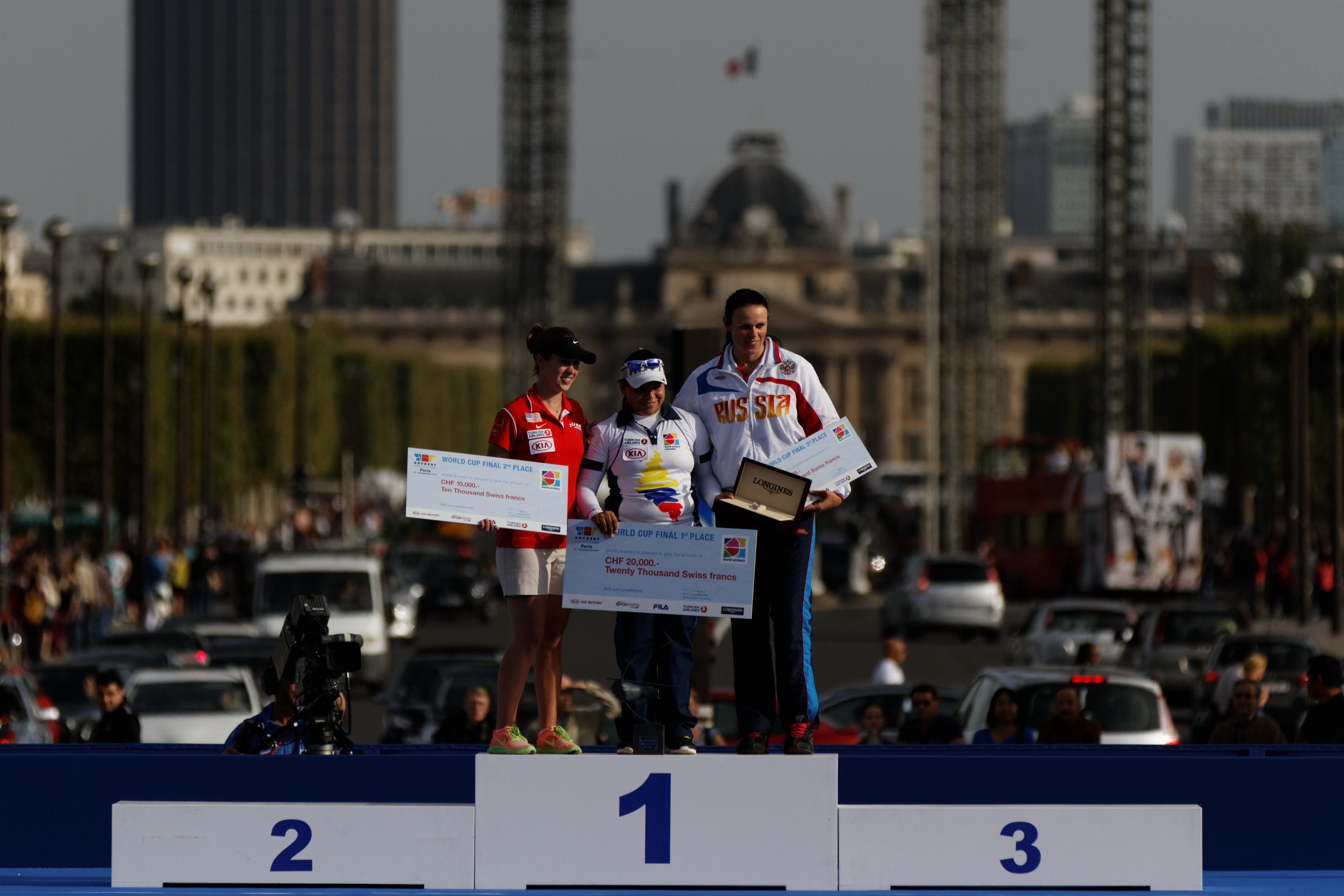 2013 FITA Archery World Cup, Paris, France. Women's individual compound podium: Erika Jones, Alejandra Usquiano and Albina Loginova.